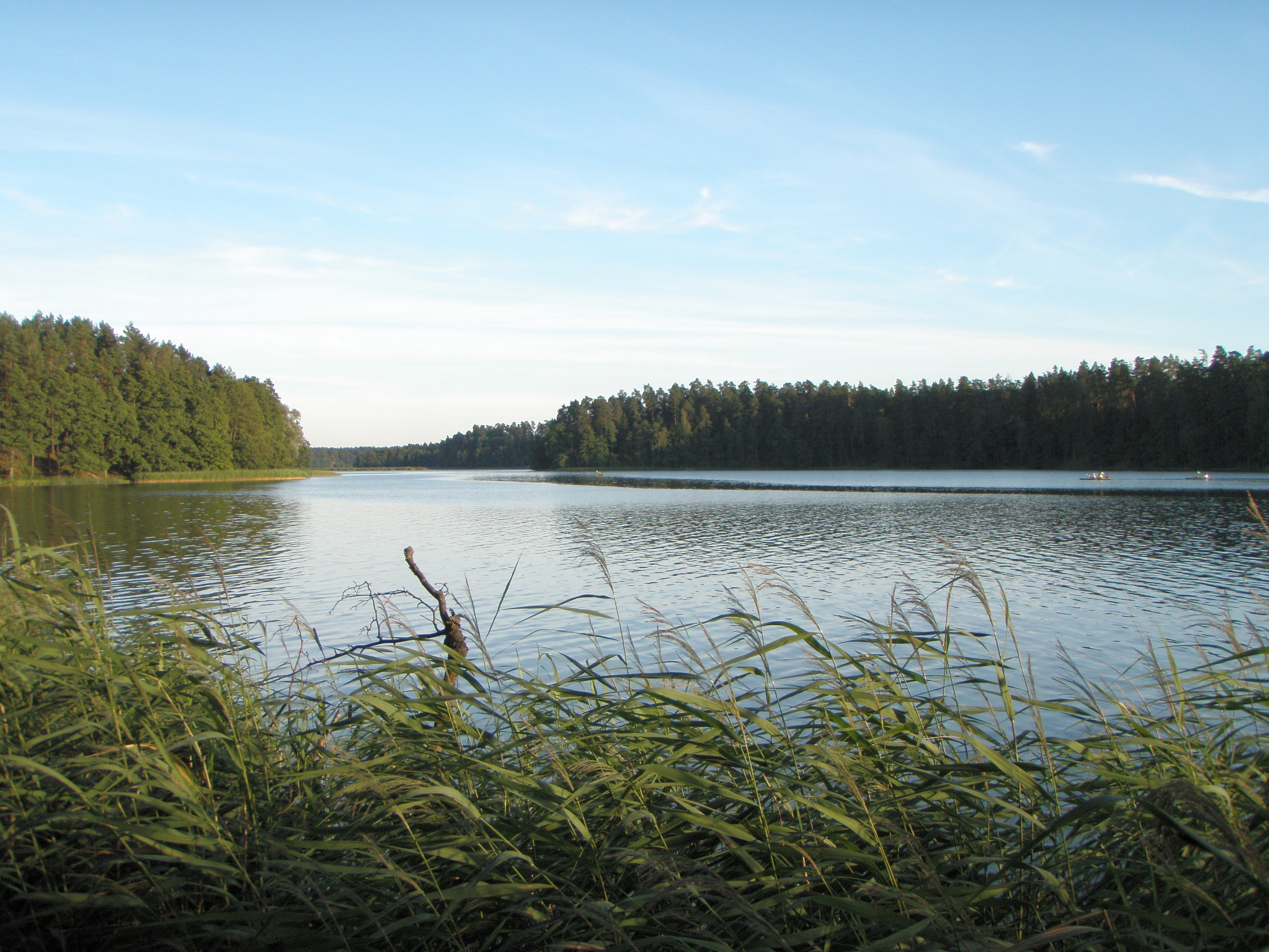 Lake Rospuda Augustowska in Augustów (Poland), view from north east to south.